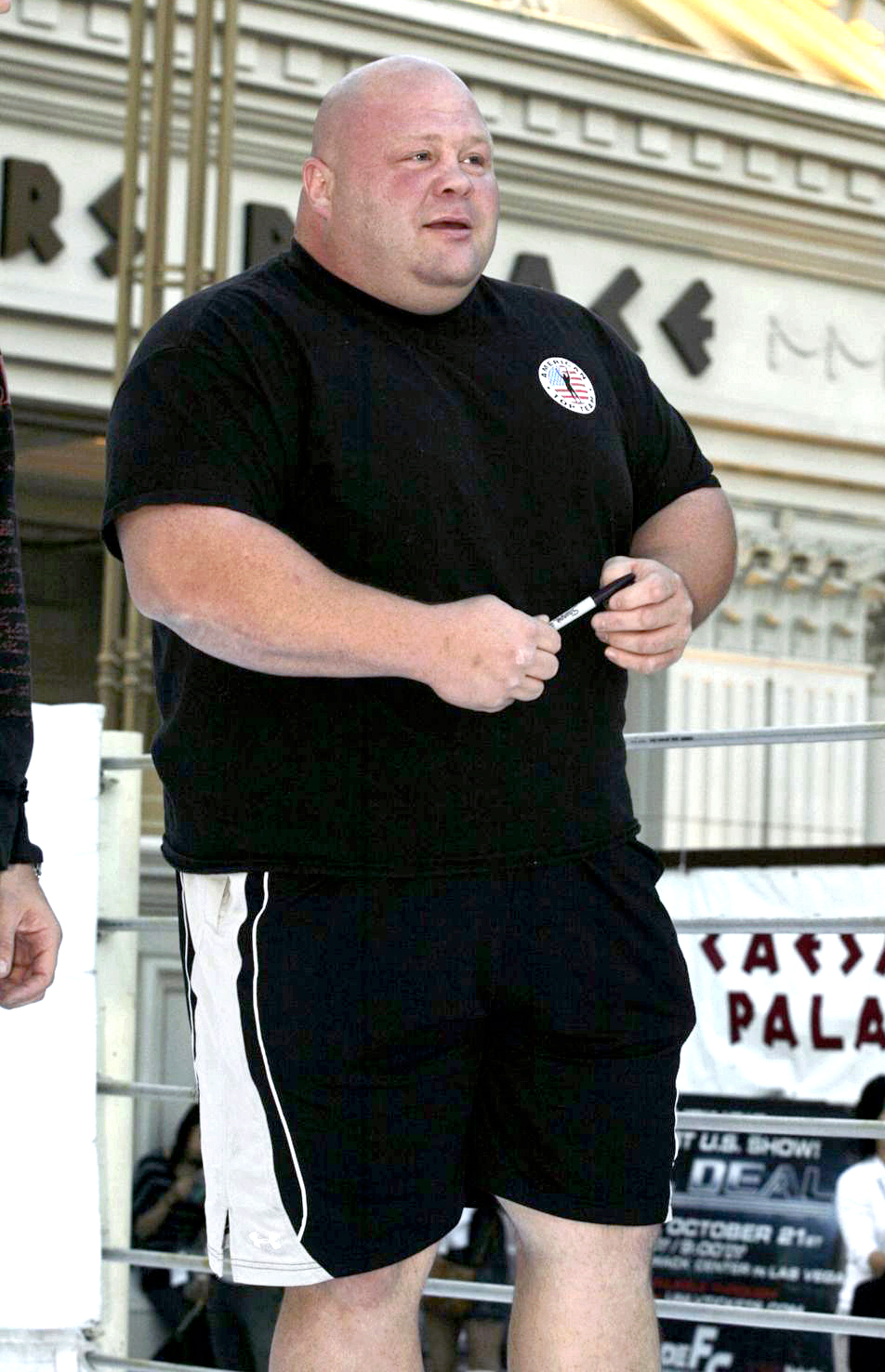 Eric Esch at the Caesars Palace on October 19, 2006.